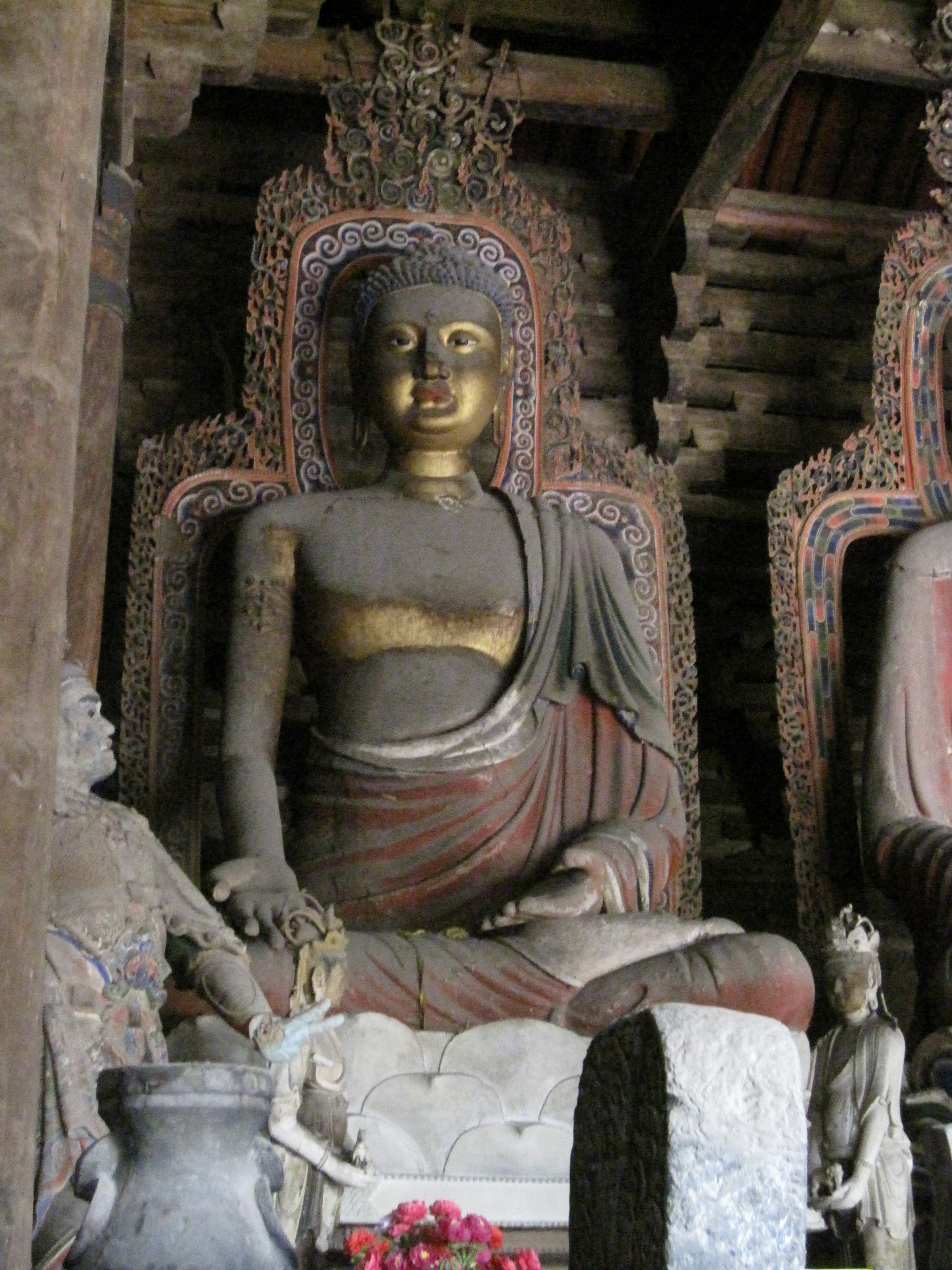 One of the Buddha statues inside Daxiongbao Hall of Fengguo Temple, Yixian, Liaoning China